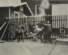 Riot scene from the 1915 film, The Absentee.